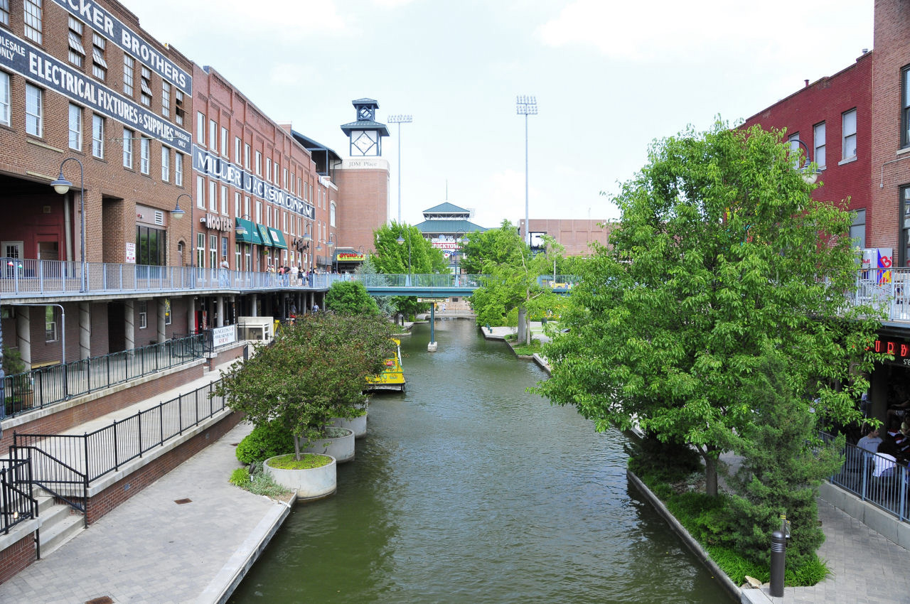 The Canal from the street above